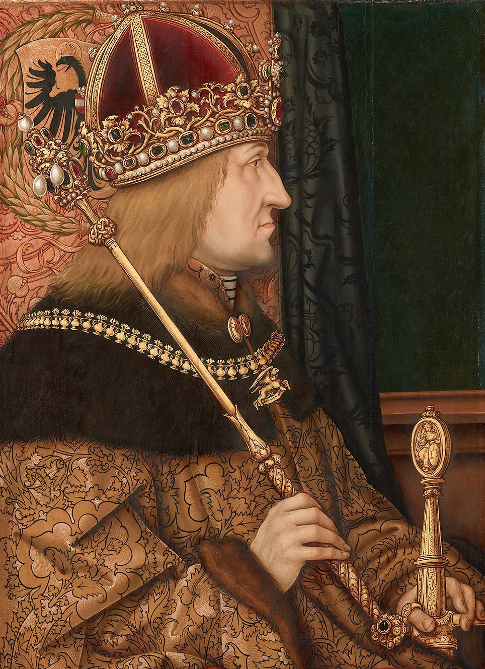 Frederick III, Holy Roman Emperor.